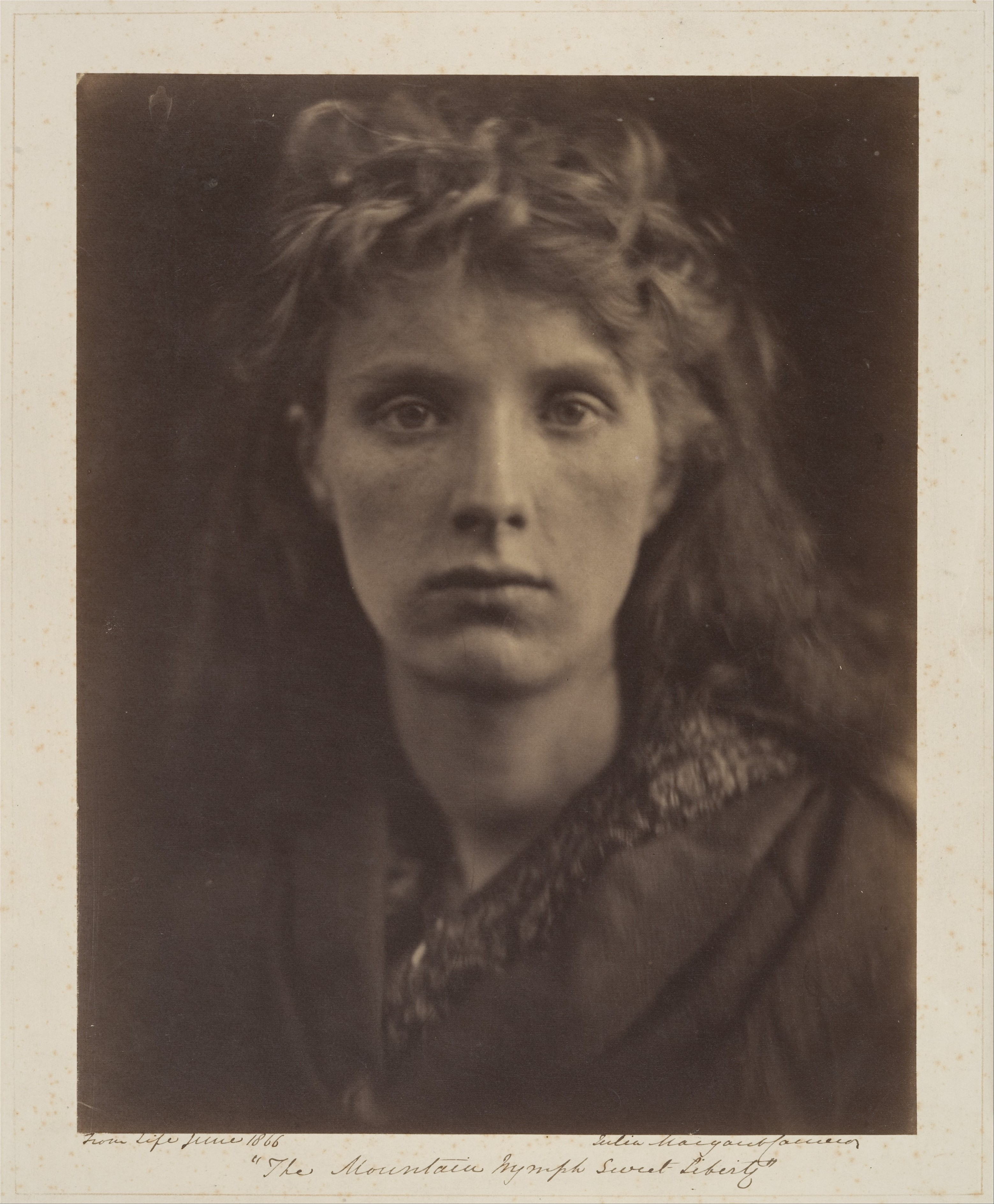 Photograph